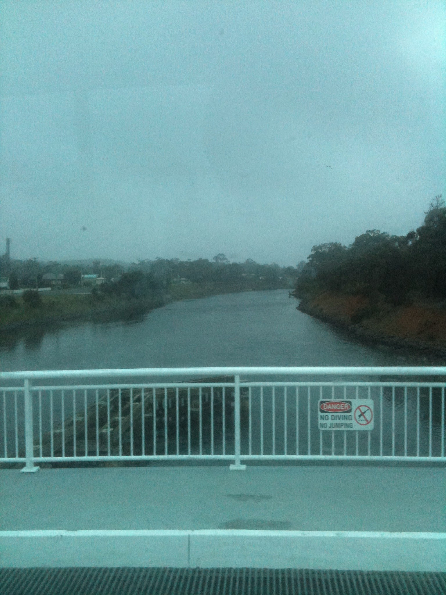 The Denison Canal viewed from the bridge which passes over it at Dunalley. This photo was taken with an early model iPhone camera from the window of a bus during a rainstorm.